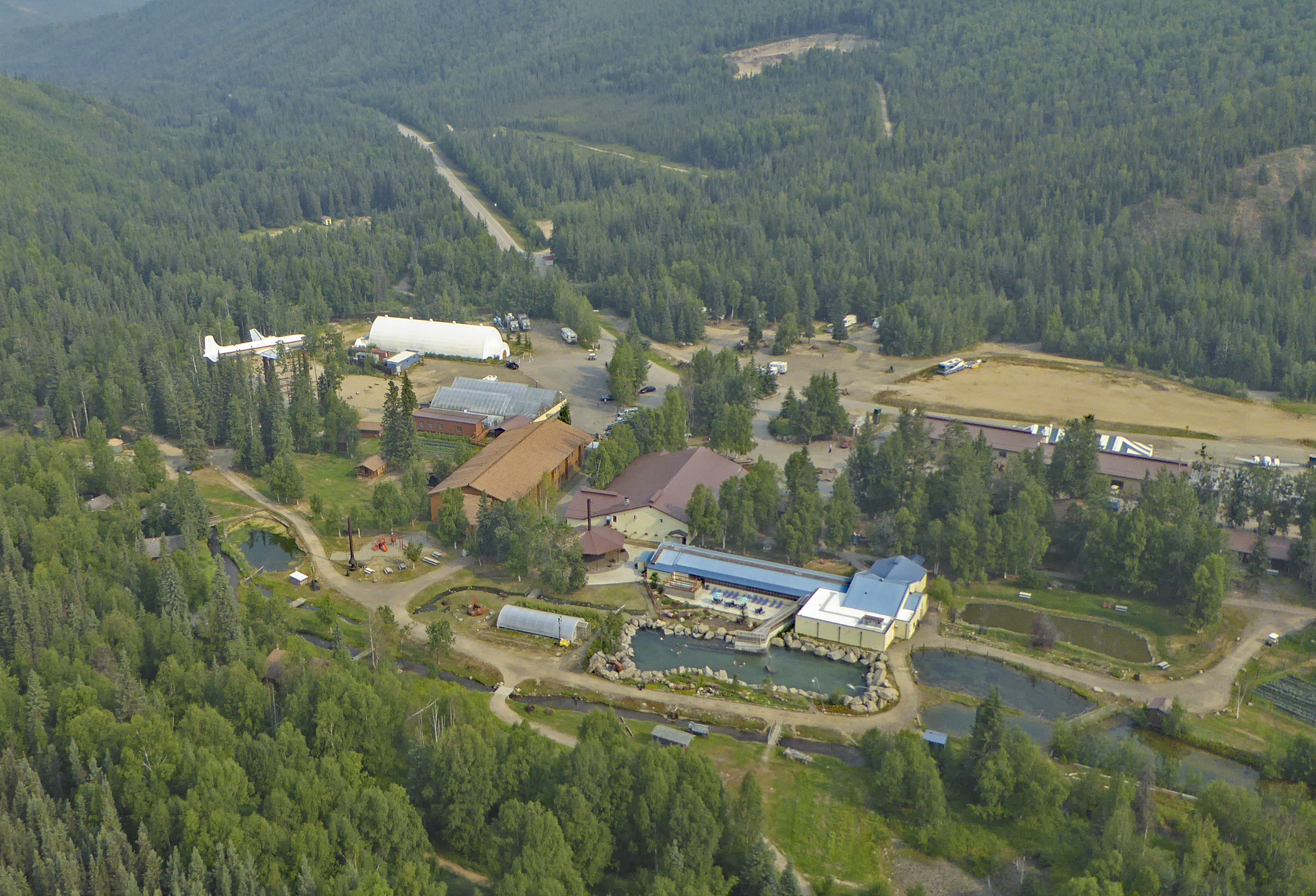 View from a Robinson R22 of Chena Hot Springs with the springs in the foreground, DC6 on the left and the campground in the distance